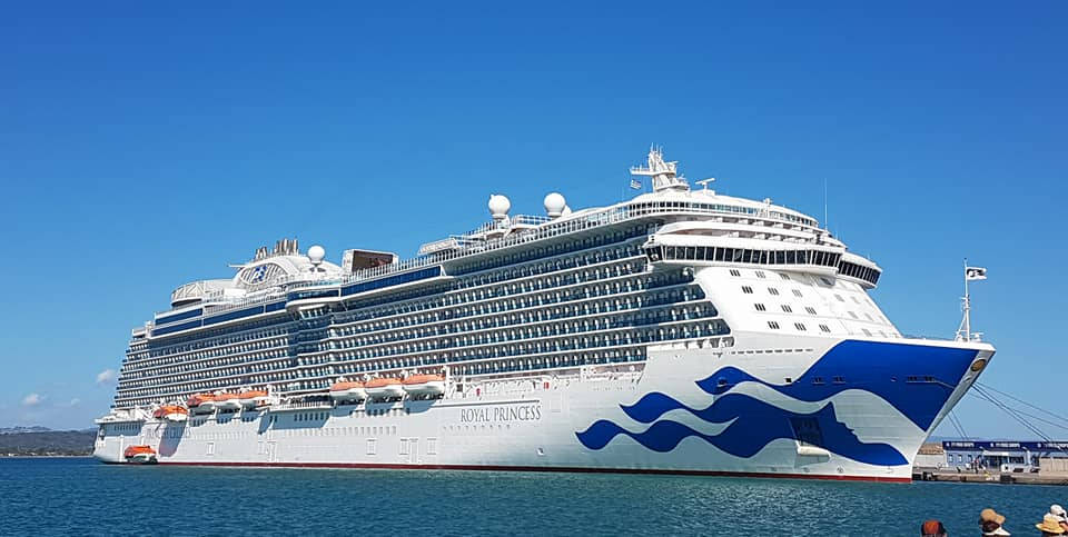 Royal Princess on November 27, 2017.